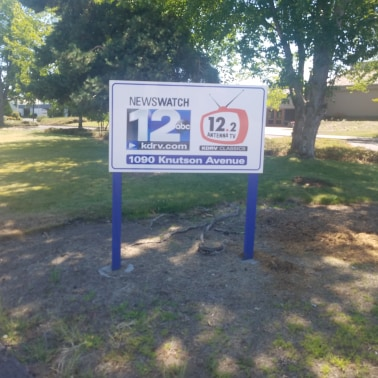 To indicate the location of the station and studios